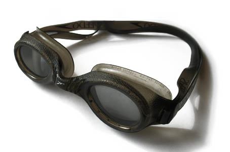 goggles for swimming